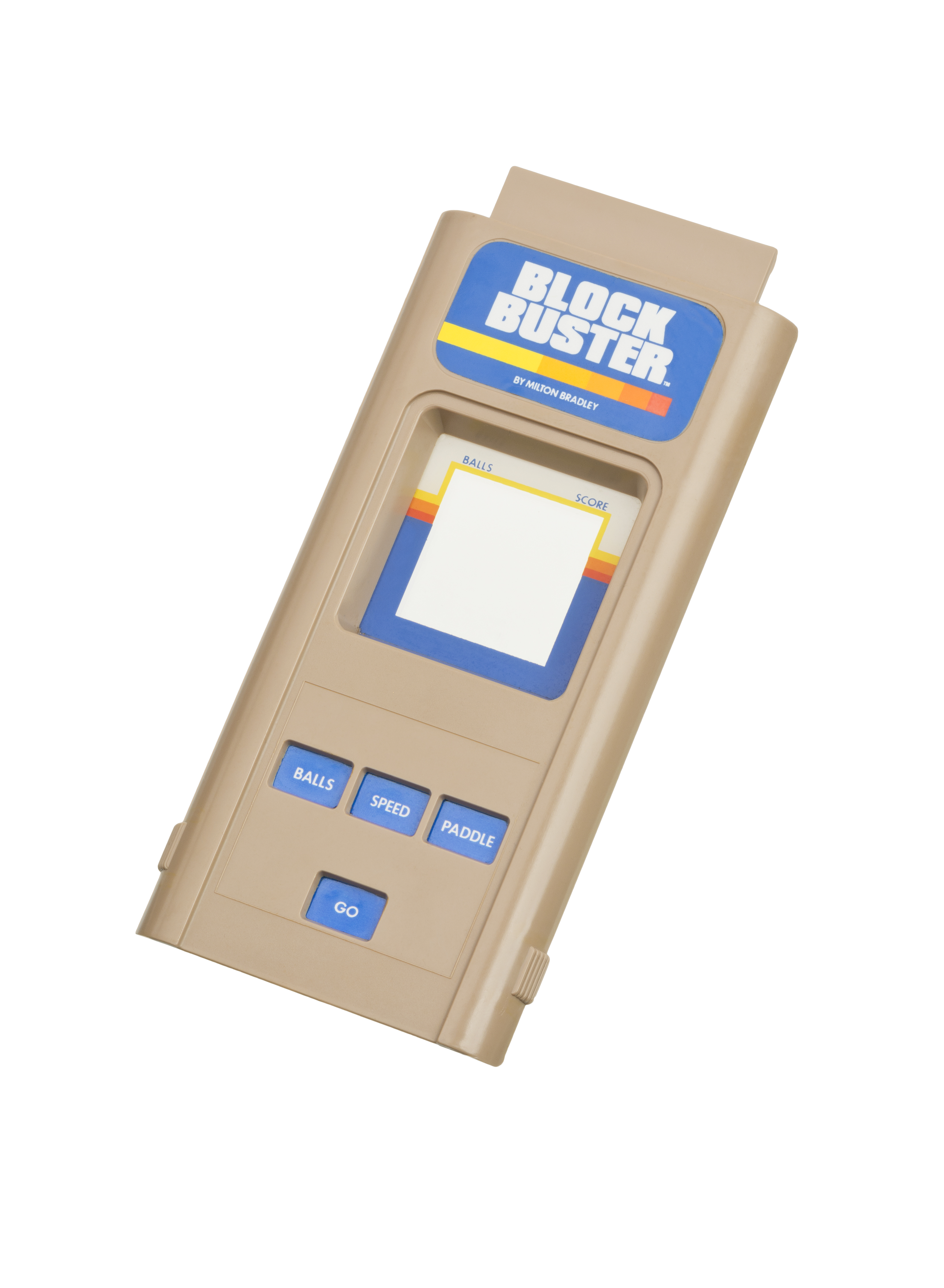 The Block Buster game cartridge for the Milton Bradley Microvision, the first handheld gaming console released in 1979. Built around a 16x16 LCD screen, a grid of touch controls and a paddle, the Microvision could play very simple games. These games came on interchangeable face plates that stored the main processor and custom overlays. The system's limitations lead to little support after the initial launch, and the Microvision was discontinued by 1981.